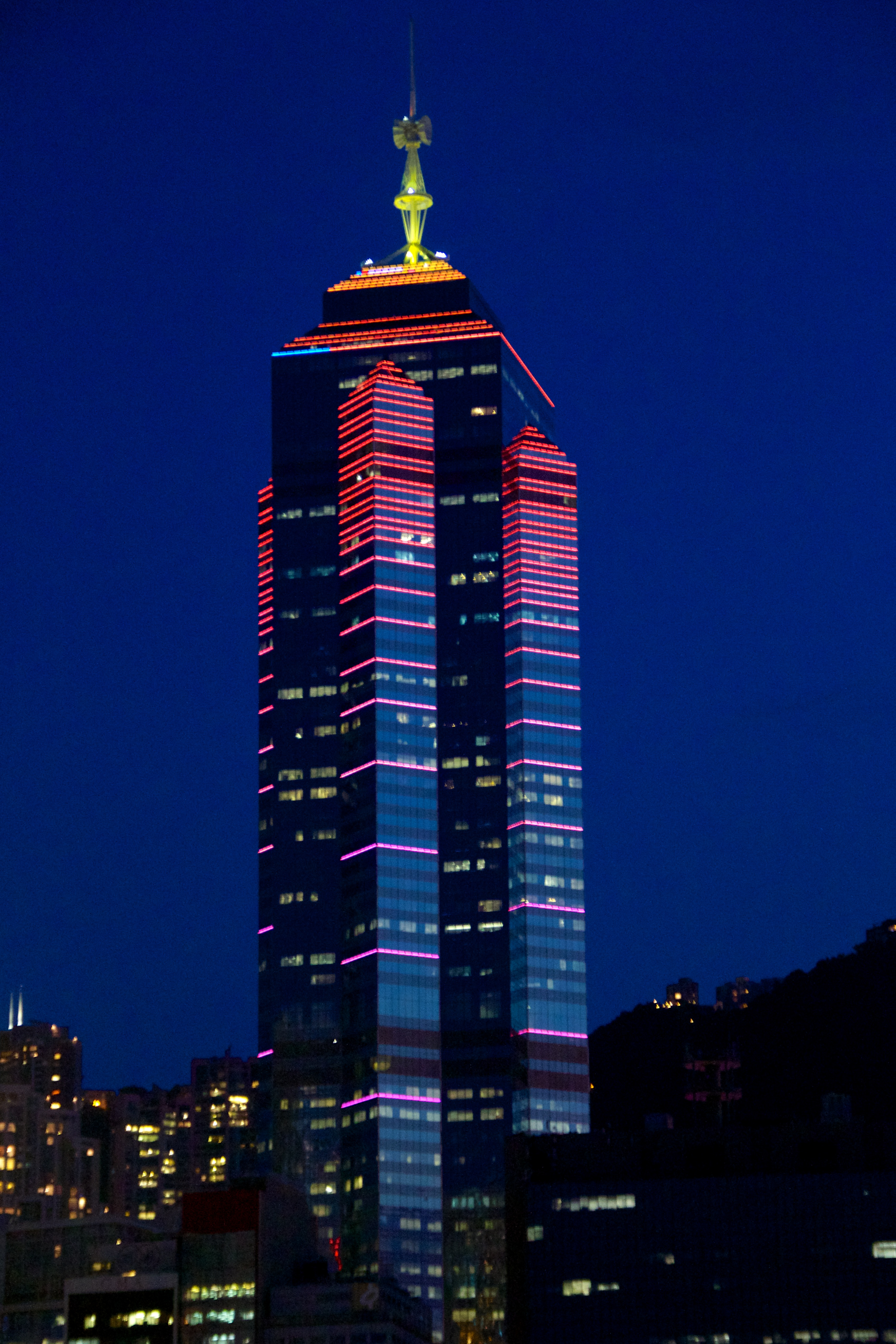 View of Hong Kong at night.